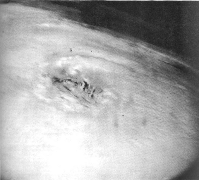 This Mercury Spacecraft satellite picture of Hurricane Debbie was taken on September 13, 1961 at 1404 UTC